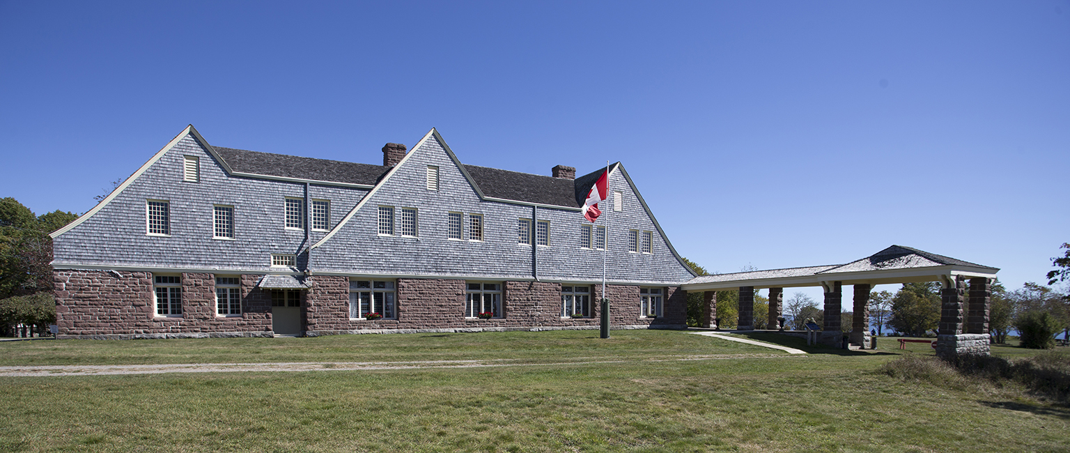 Showing Covenhoven in the summer of 2017